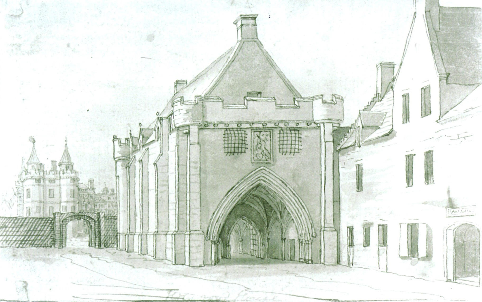 A sketch of James IV's gateway at Holyrood Palace, Edinburgh